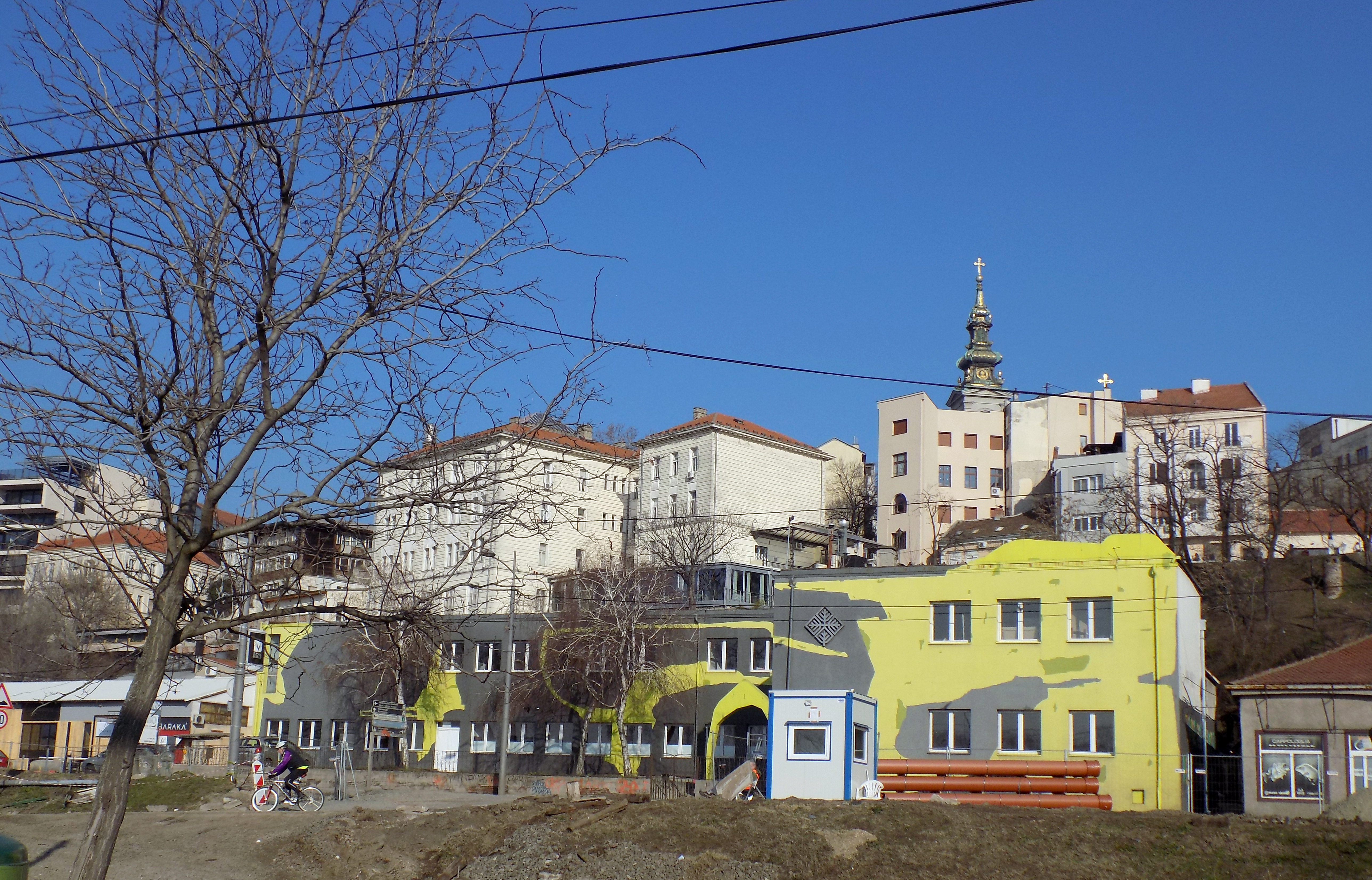 Building of the Faculty of Applied Arts in Karadjordjeva Street, Belgrade